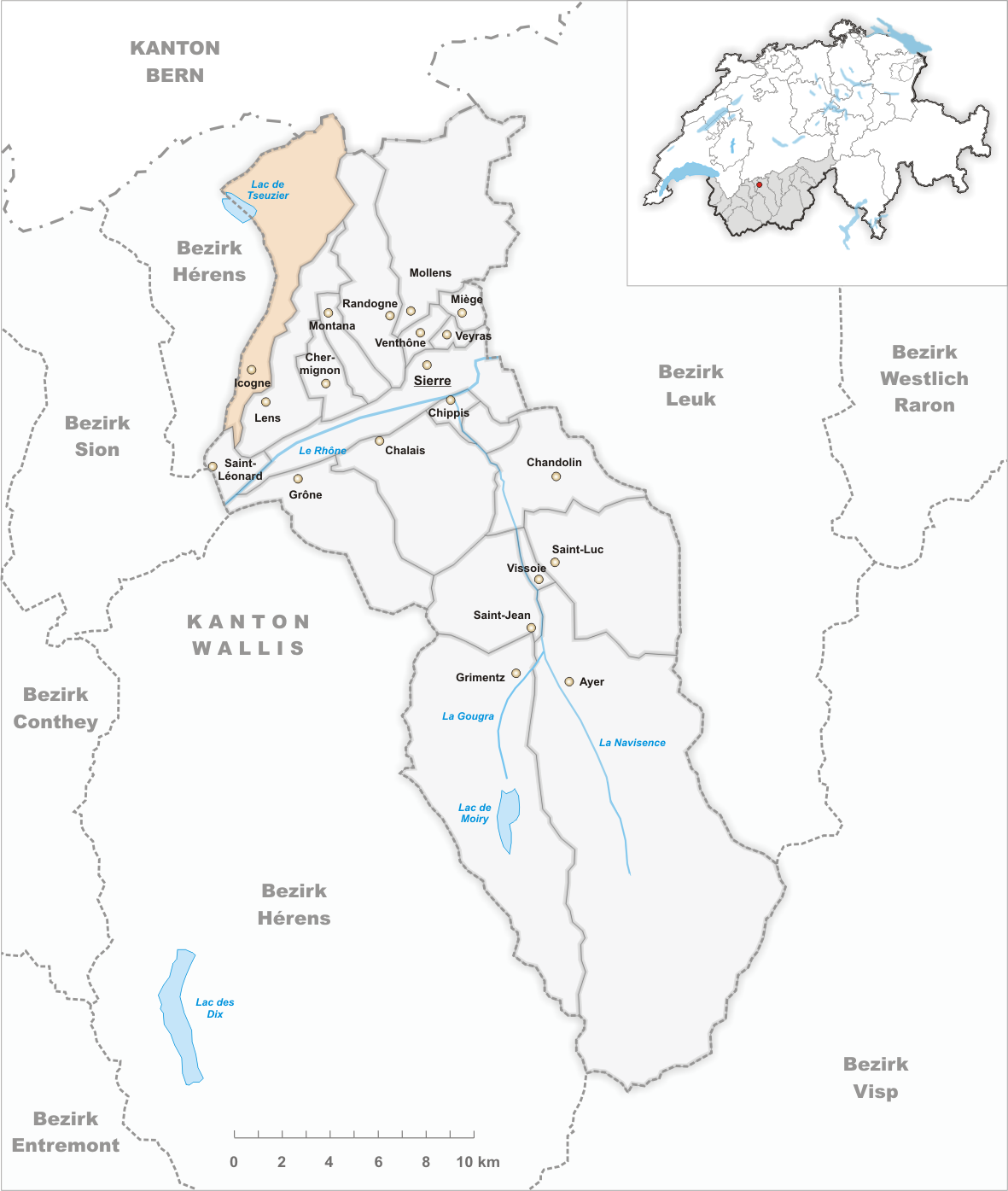 Municipality Icogne